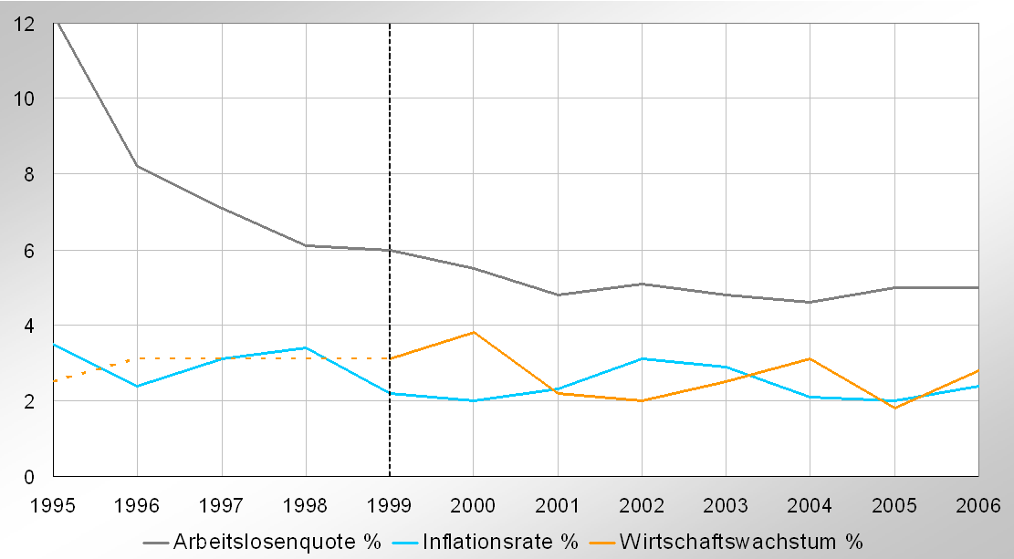 The chart shows the unemployment rate (grey), the inflation rate (blue) and the economic growth (orange) in the United Kingdom from 1995 to 2006. In 1999 a minimum wage was introduced (marked with a vertical dashed line). Economic growth prior to 2000 are averge values (dashed orange line). Sources are the ILO, OECD, CIA World Fact Books and others.